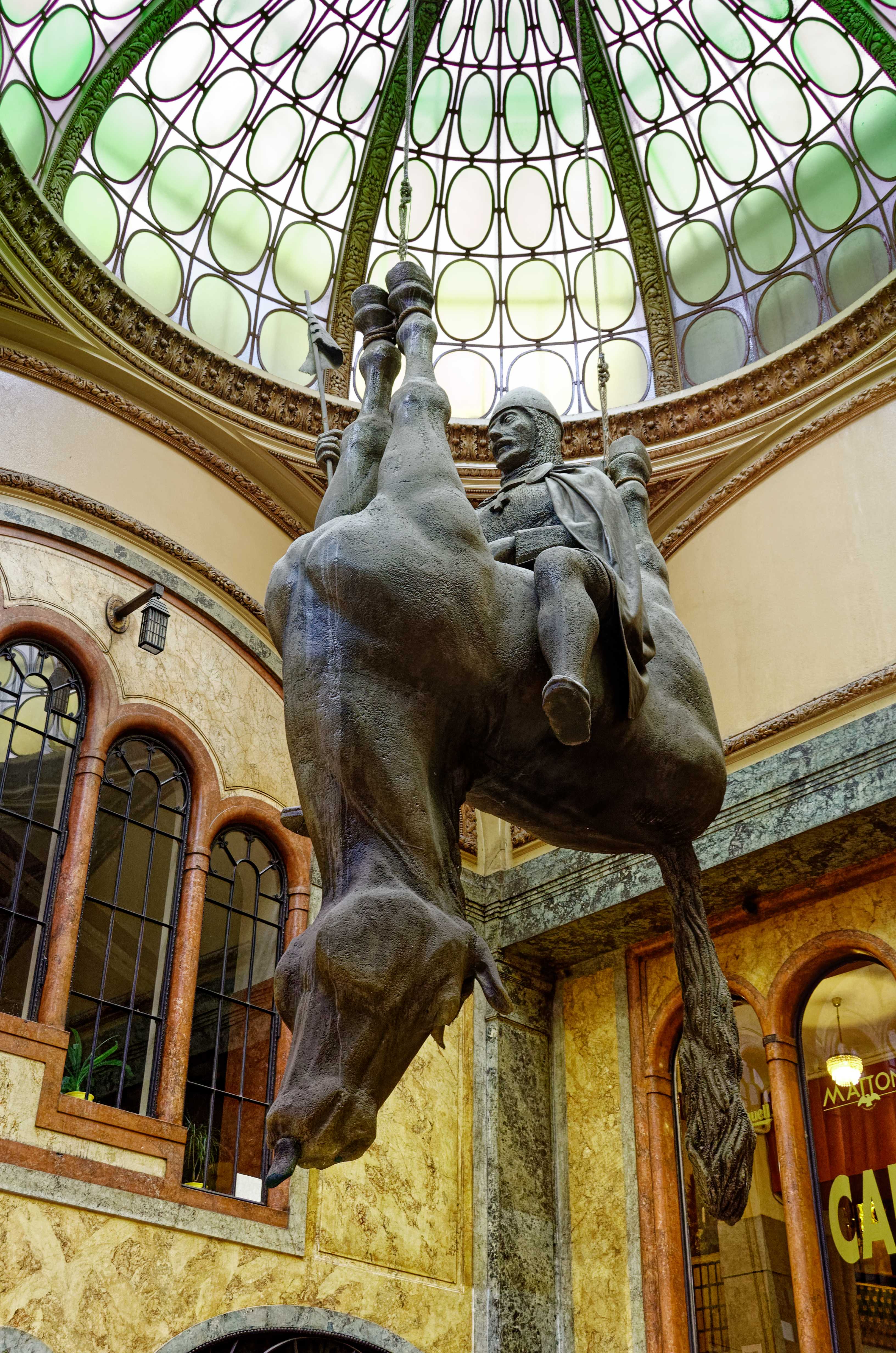 Statue of St. Wenceslas riding an inverted horse. It is located in the entrance to the Lucerna theater on the southeast side of Wenceslas Square. Sculpture by David Cerný, executed in foam, but made to resemble patinated bronze.